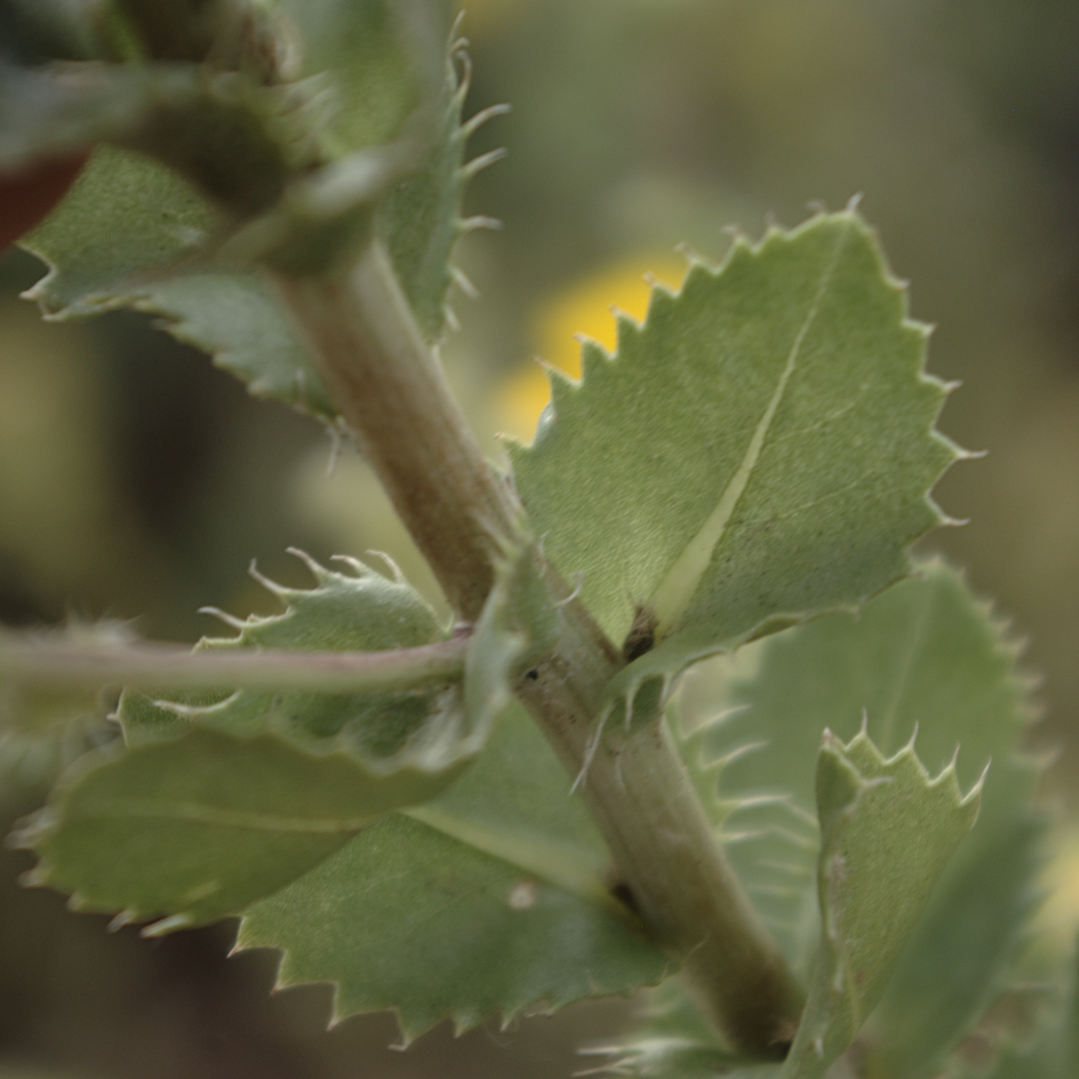 Leaves of Grindelia ciliata (Haplopappus ciliatus, maybe also known as Grindelia papposa), near Tucumcari, New Mexico. Name follows Flora of North America. Thanks to Tim Lowrey for identification.